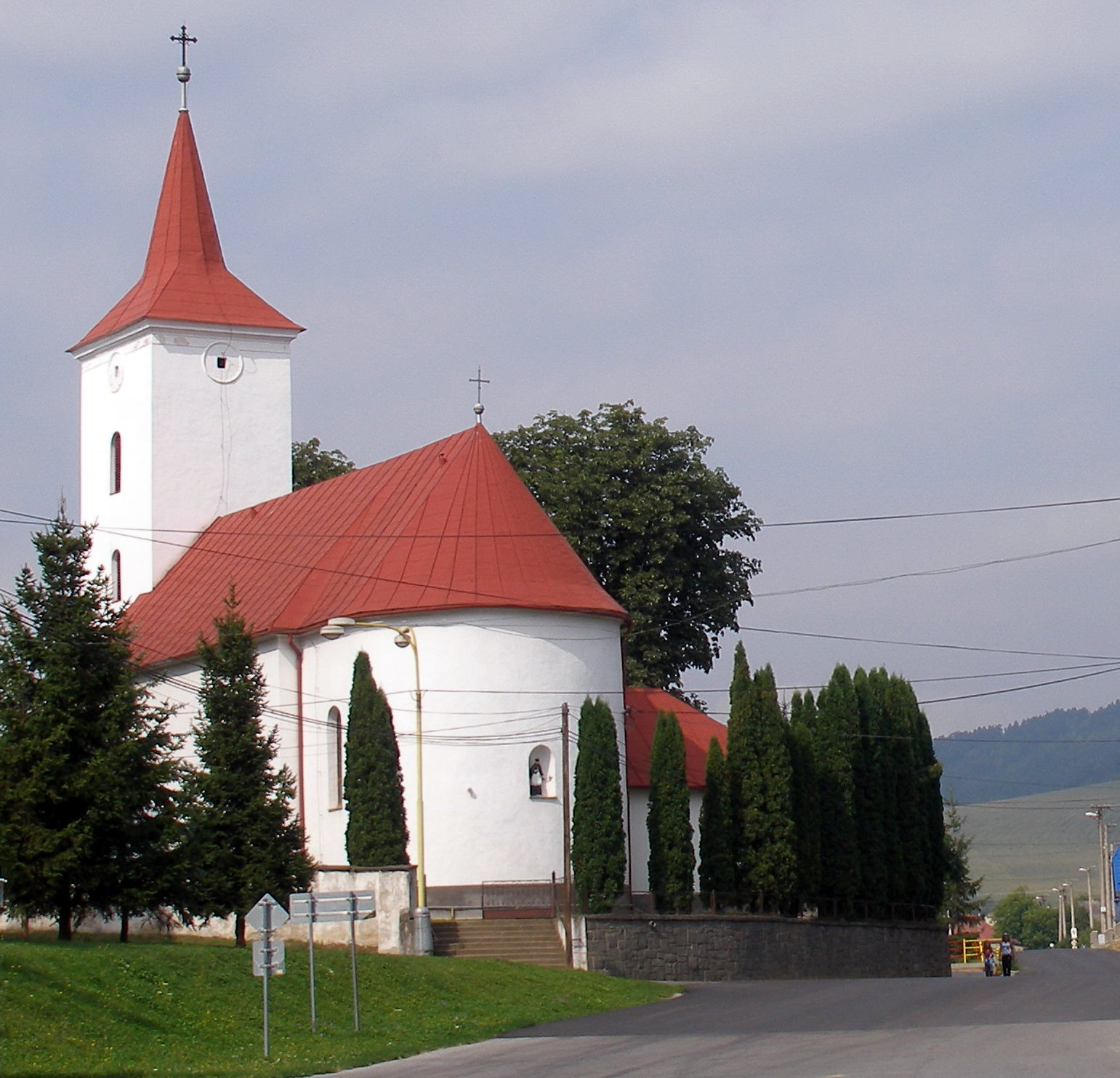 Šarišská obec Jarovnice This medium shows the protected monument with the number 708-11084/0 in the Slovak Republic.